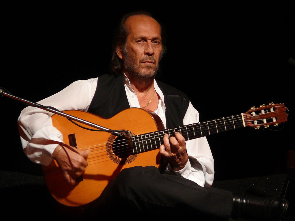 Paco de Lucía at the PLAI Festival in Timişoara, September 2007.